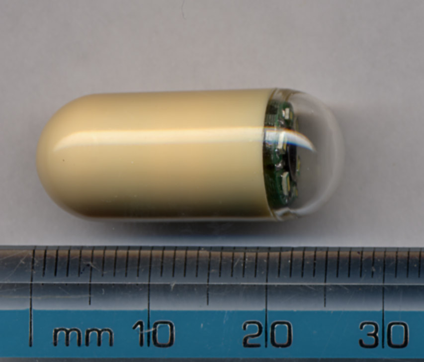 I produced this image by putting a (used) capsule on the scanner next to a ruler.